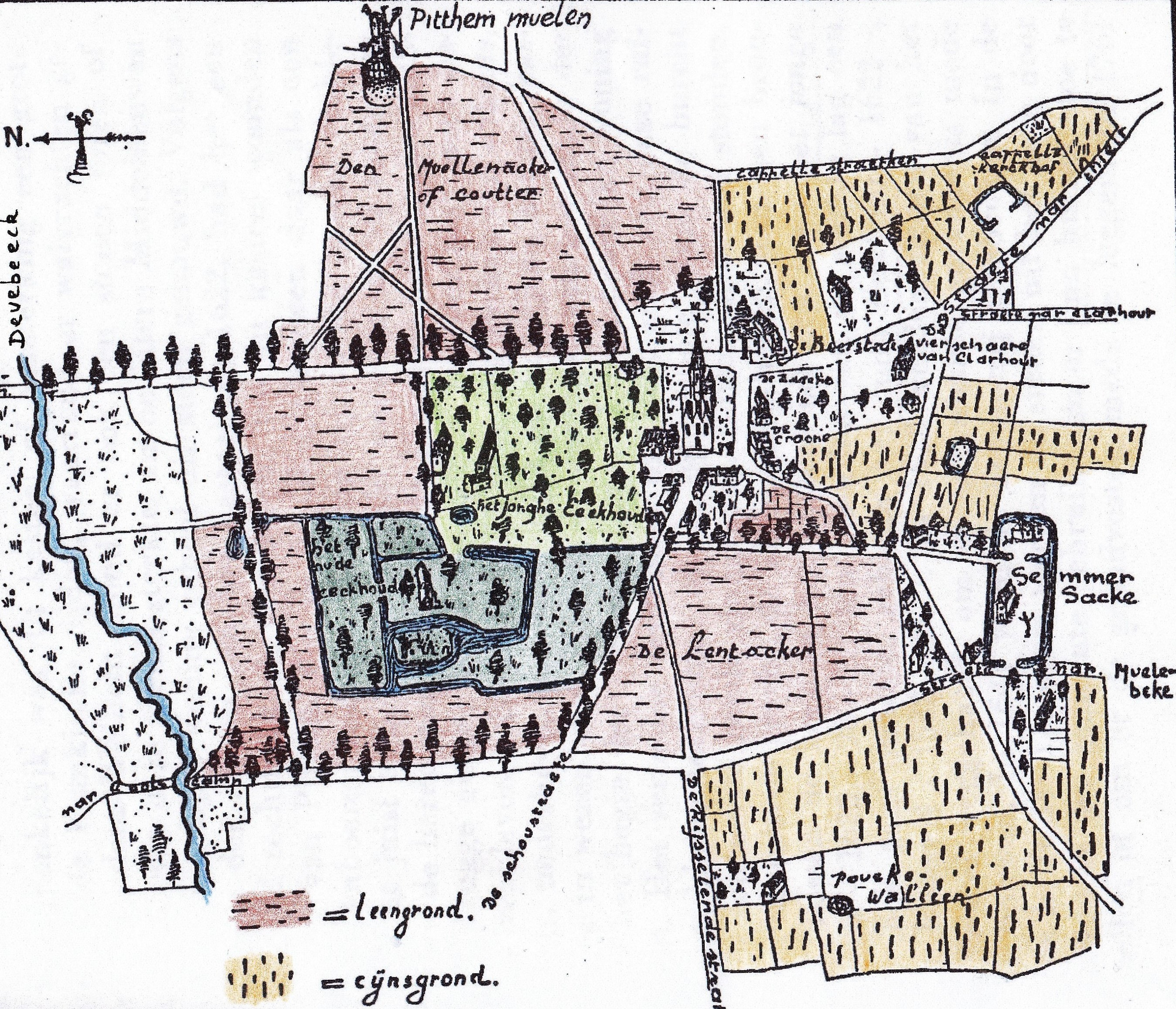 comes from public old archives of Bruges section Pittem